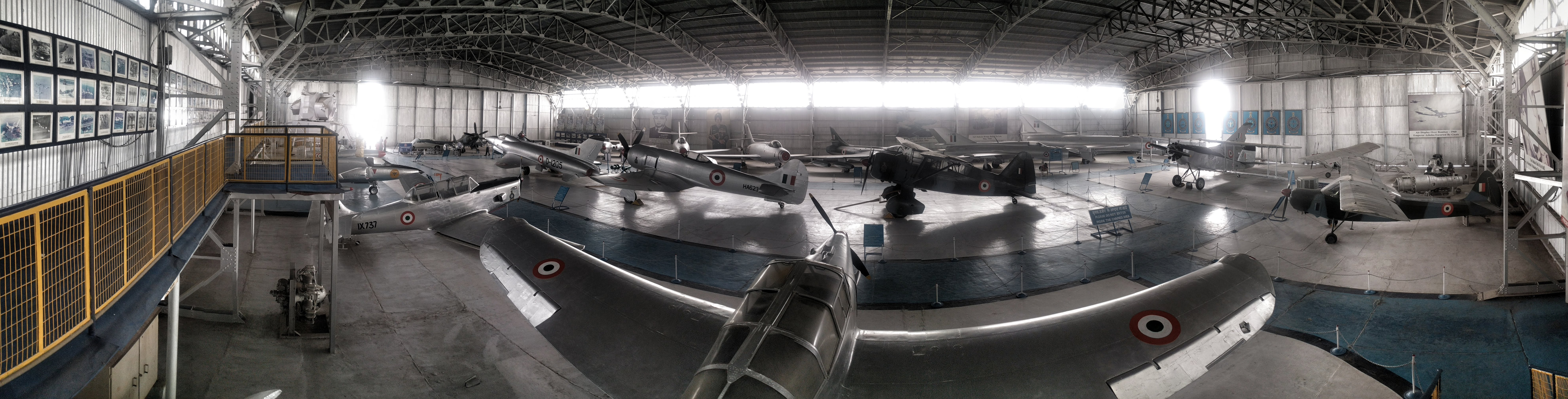 Panoramic view of one of the Hangers in the Air Force Museum, Palam